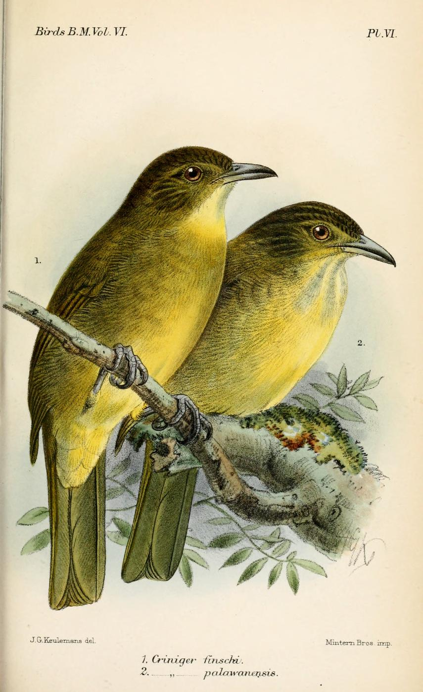 Criniger finschi = Alophoixus finschii Finsch's Bulbul (left); Criniger palawanensis = Ixos palawanensis Sulphur-bellied Bulbul (right); illustration by Keulemans, 1881